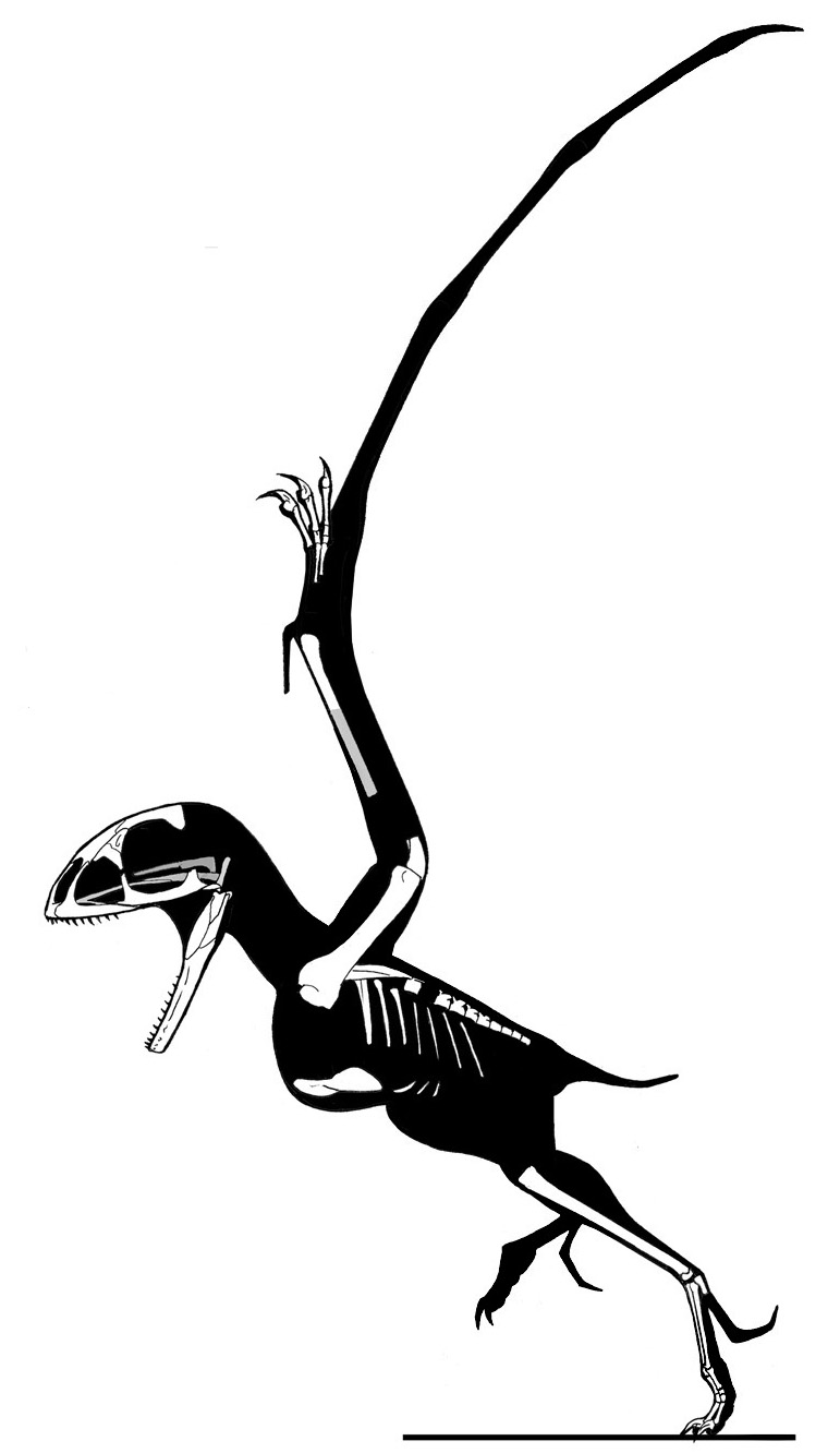 Skeletal reconstruction of the Batrachognathus volans holotype.